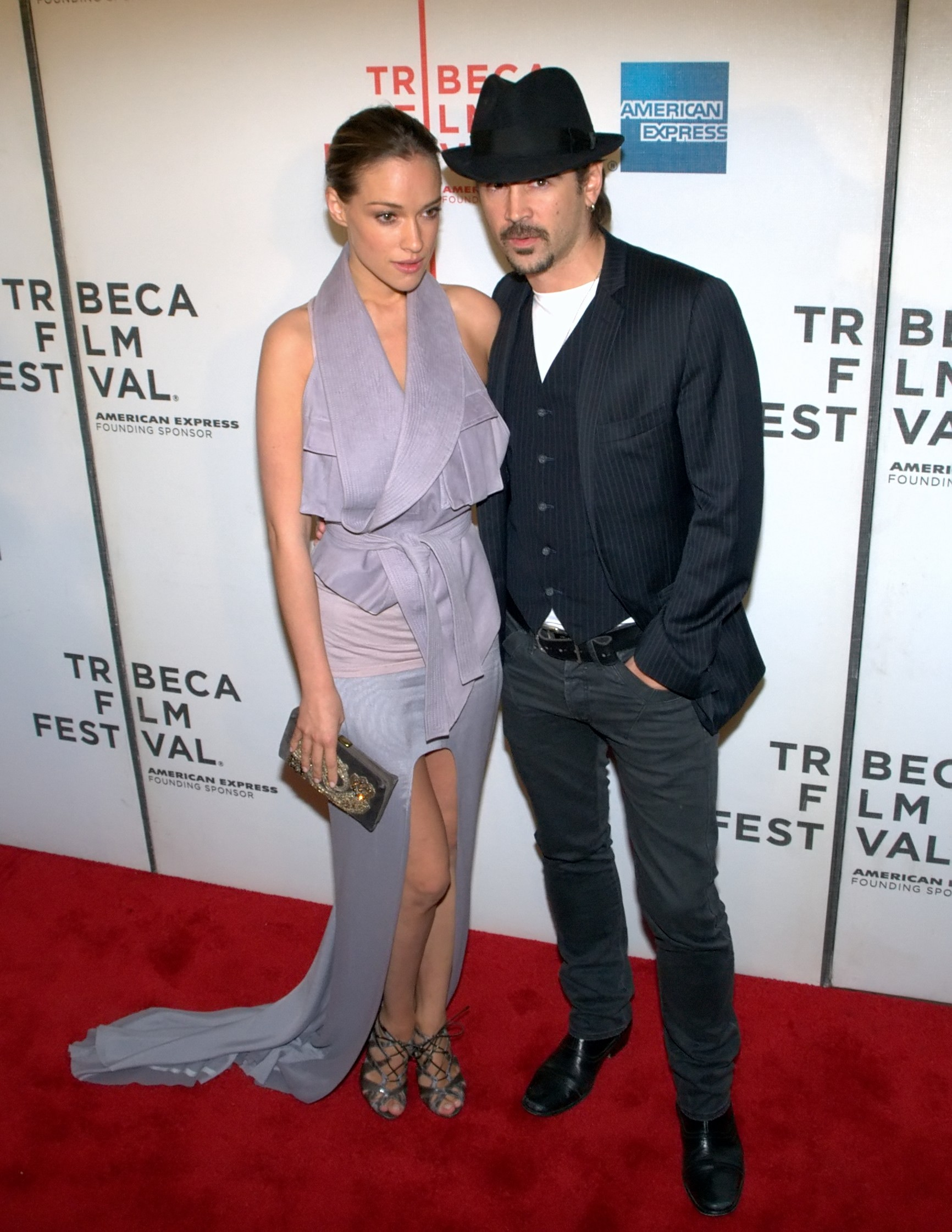 Alicia Bachleda-Curus and Colin Farrell at the premiere of Ondine at the 2010 Tribeca Film Festival